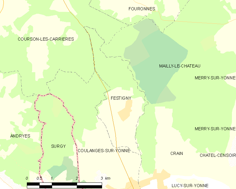 Map of French municipality Festigny